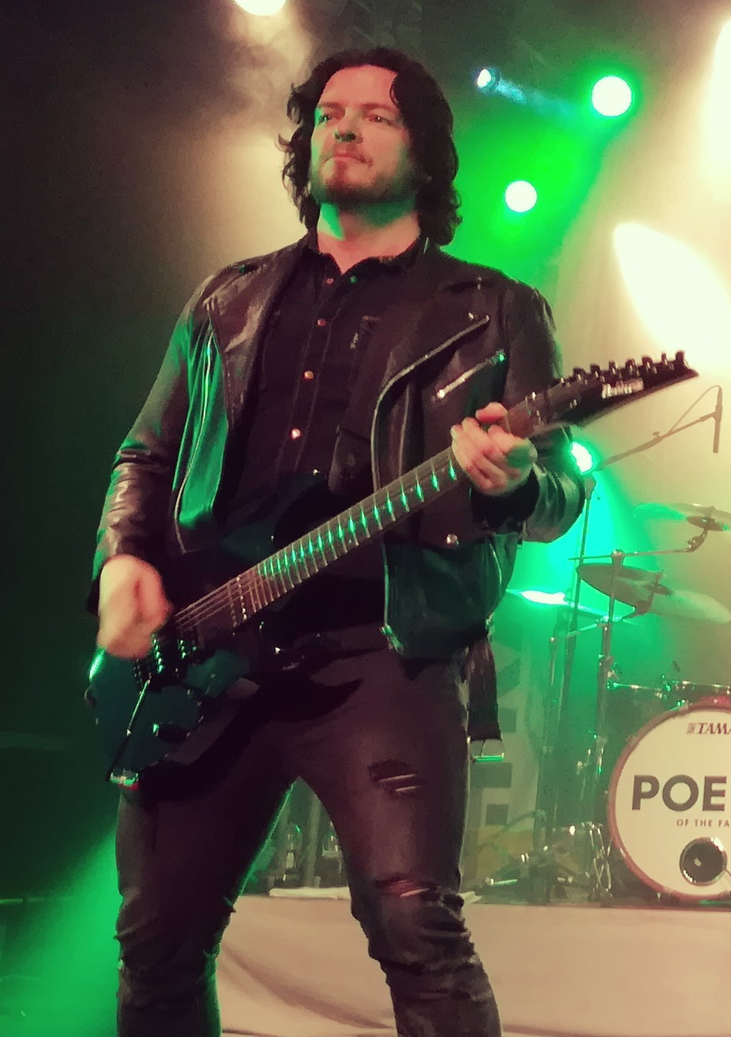 Poets of the Fall's rhythm guitarist Jaska Mäkinen